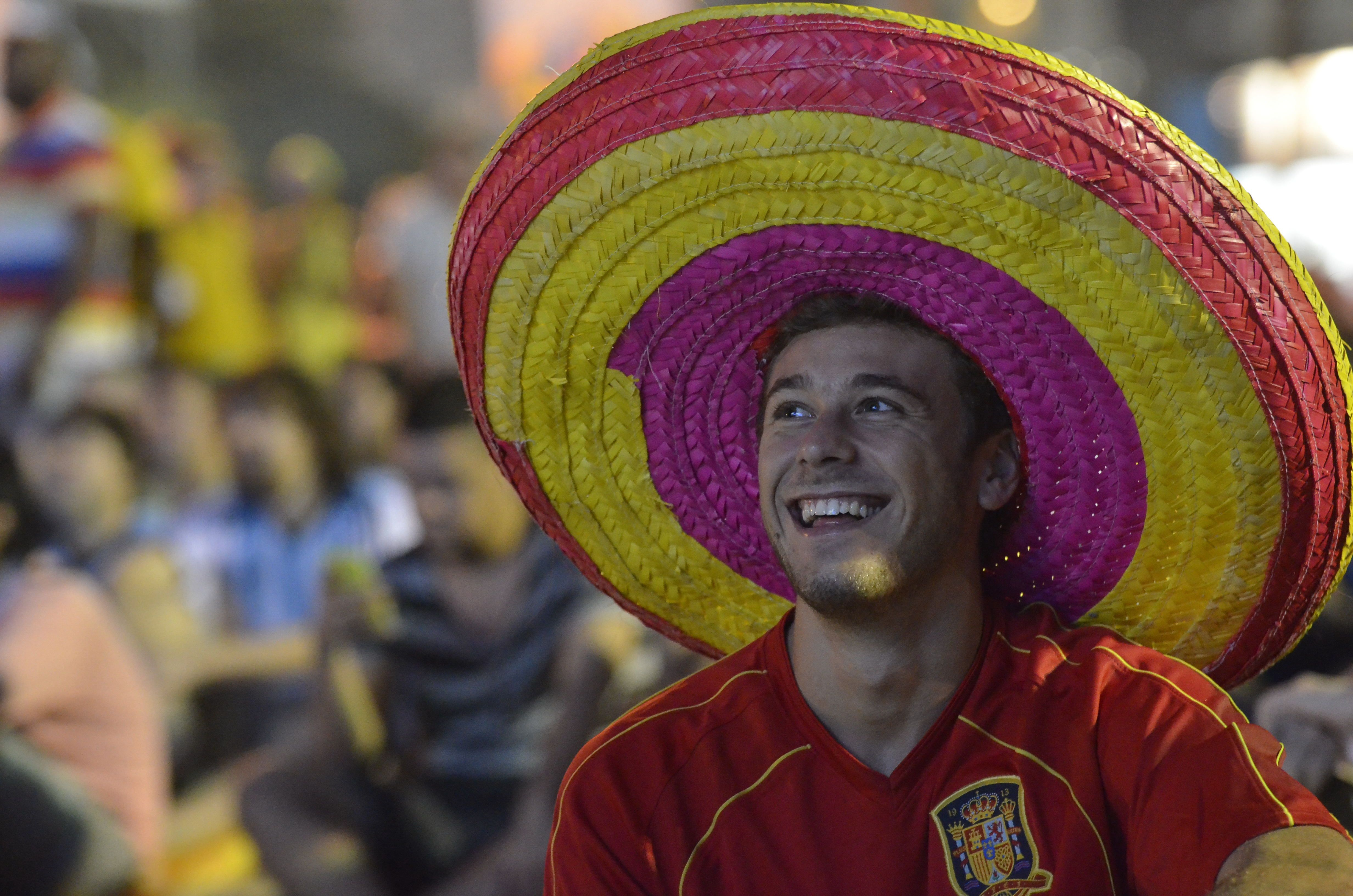 Second day of the Fifa Fan Fest - Rio de Janeiro